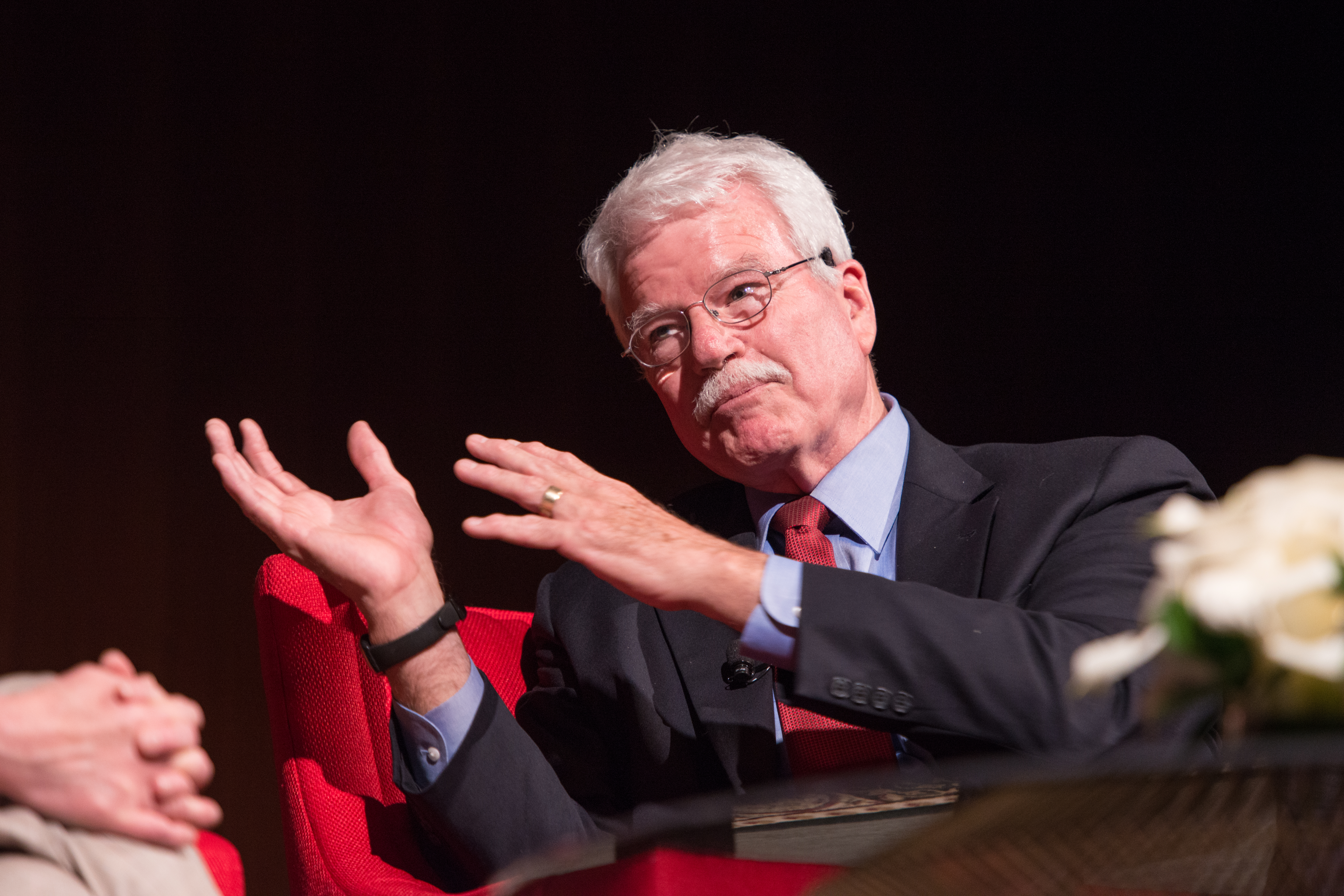 Margaret Spellings, President of the George W. Bush Center and former Secretary of Education, and U.S. Representative George Miller discuss the state of education today with Bob Schieffer, CBS News reporter. Photo by Lauren Gerson.